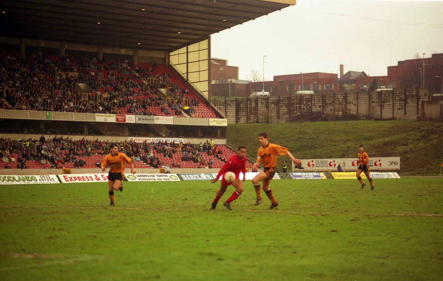 Molineaux Stadium in 1991, near to Wolverhampton, Great Britain.